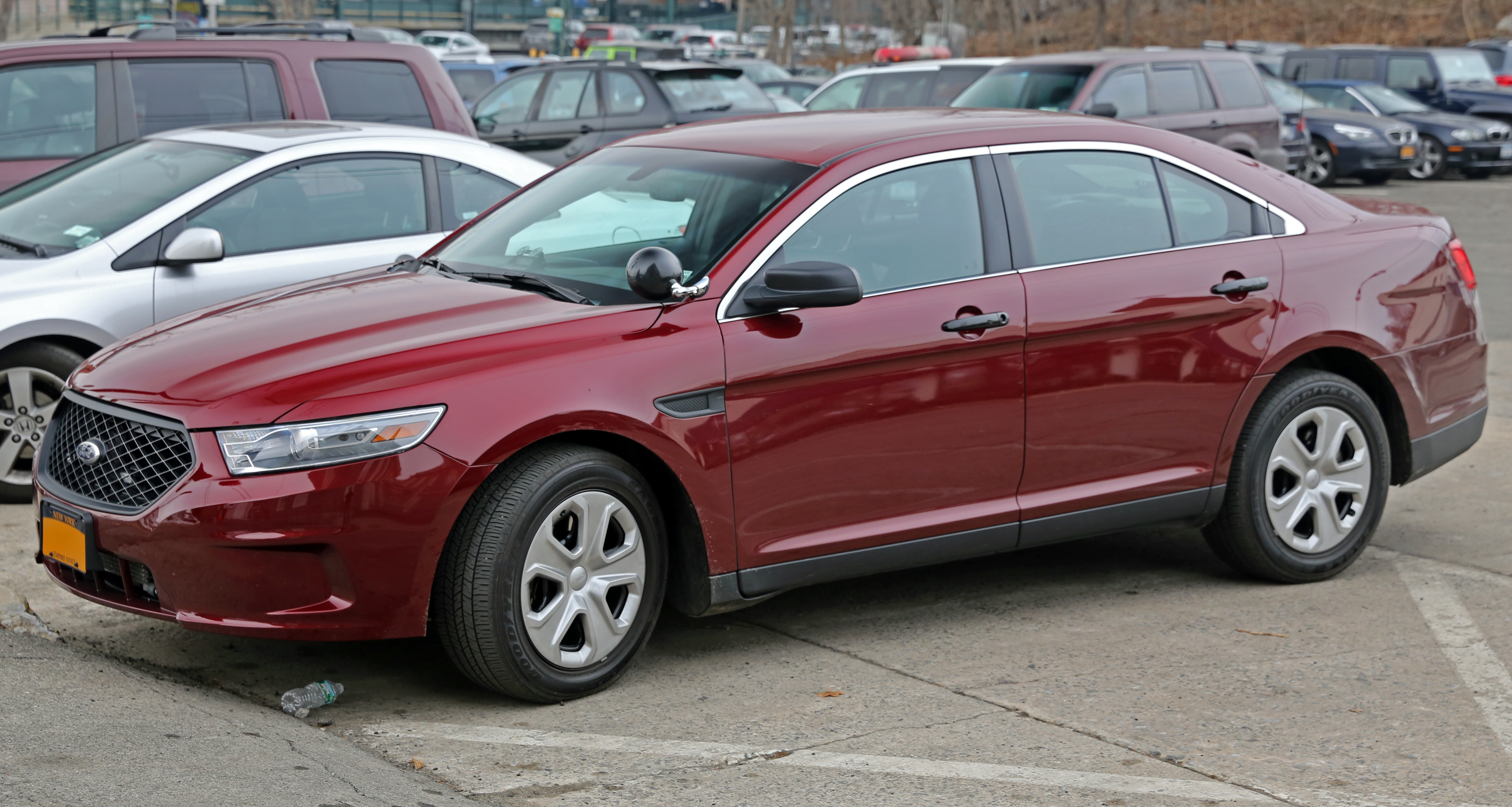 A 2013 Ford Taurus Police Interceptor in plain clothing, presumably belonging to the Police Commissioner in the city of Rye, NY. This model has AWD (as do all of the Police Interceptors) and the lower powered "Cyclone" V6 engine.